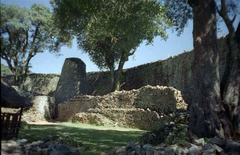 Inside of the Great Enclosure which is part of the Great Zimbabwe ruins.